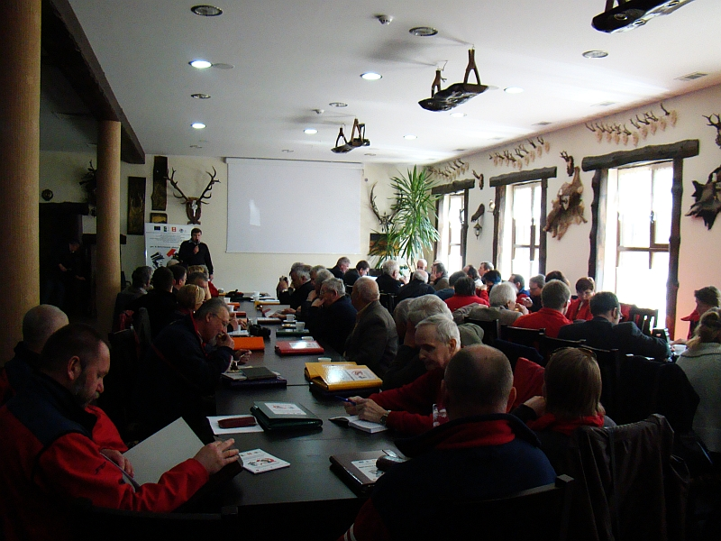 Regional popular scientific Conference on General Karol Świerczewski in Baligród